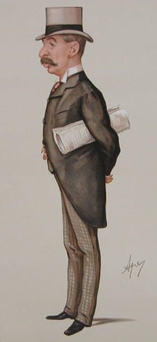 Caricature of Charles Thomson Ritchie MP. Caption read "Sugar Bounties".